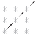 Author: Marc Levoy